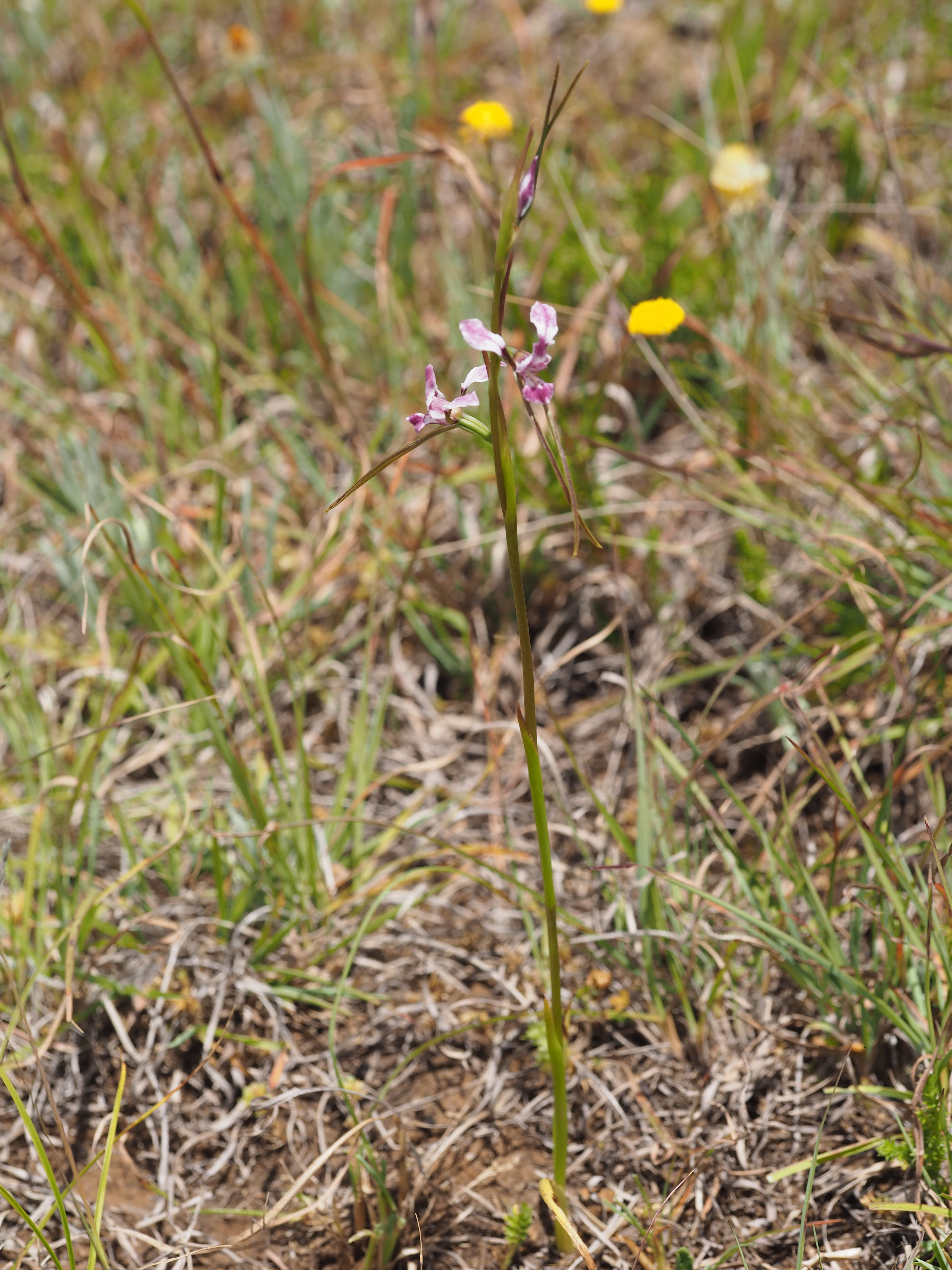 Diuris dendrobioides growing 3 km east of Bald Blair school, 15 km east of Walcha